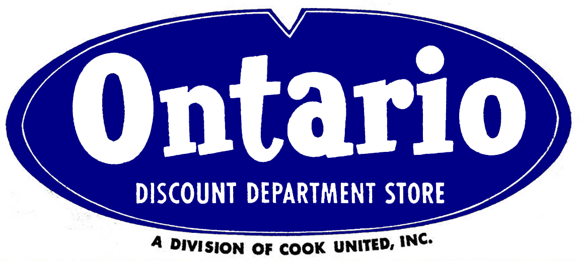 Ontario Discount Department Store was a chain operated retailer based in Ohio.